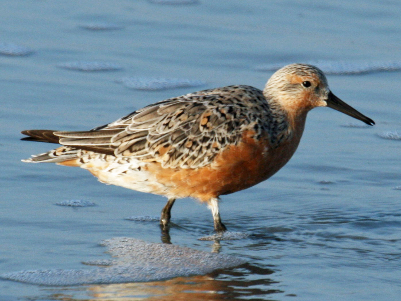 Red Knot (Calidris canutus)